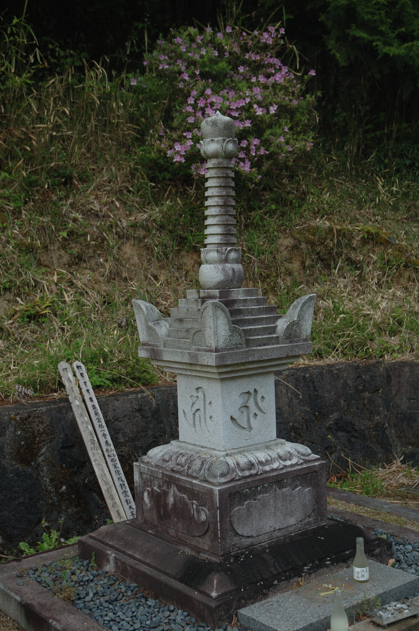 the Akamatsus and the Yamanas memorial of both armed forces